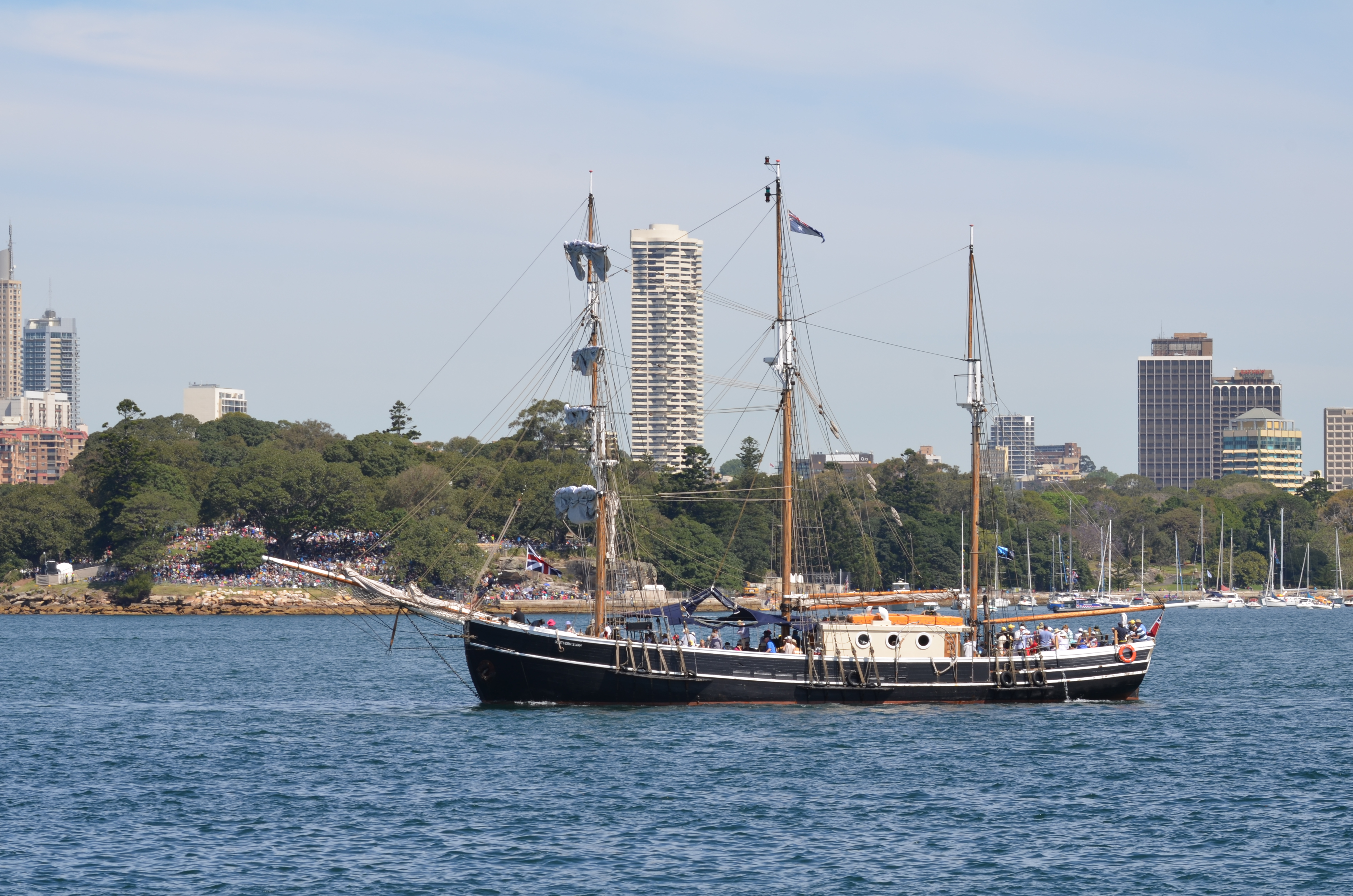 Photographs taken during day 3 of the Royal Australian Navy International Fleet Review 2013. Tallship Southern Swan on Sydney Harbour.